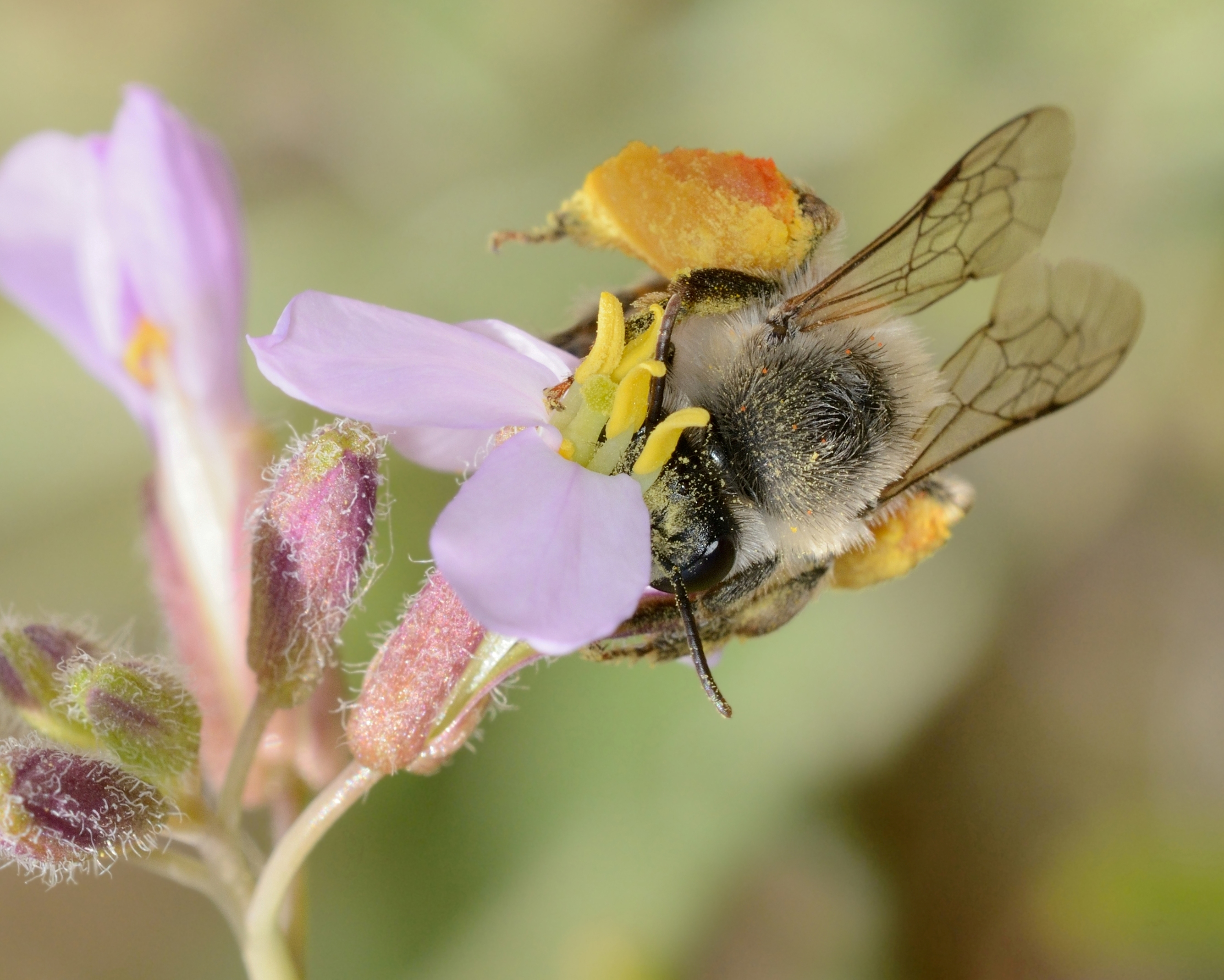 Melitta maura (Pérez 1896), female foraging on Diplotaxis acris, HaMakhtesh HaGadol, The Negev, Israel, April 5, 2014.